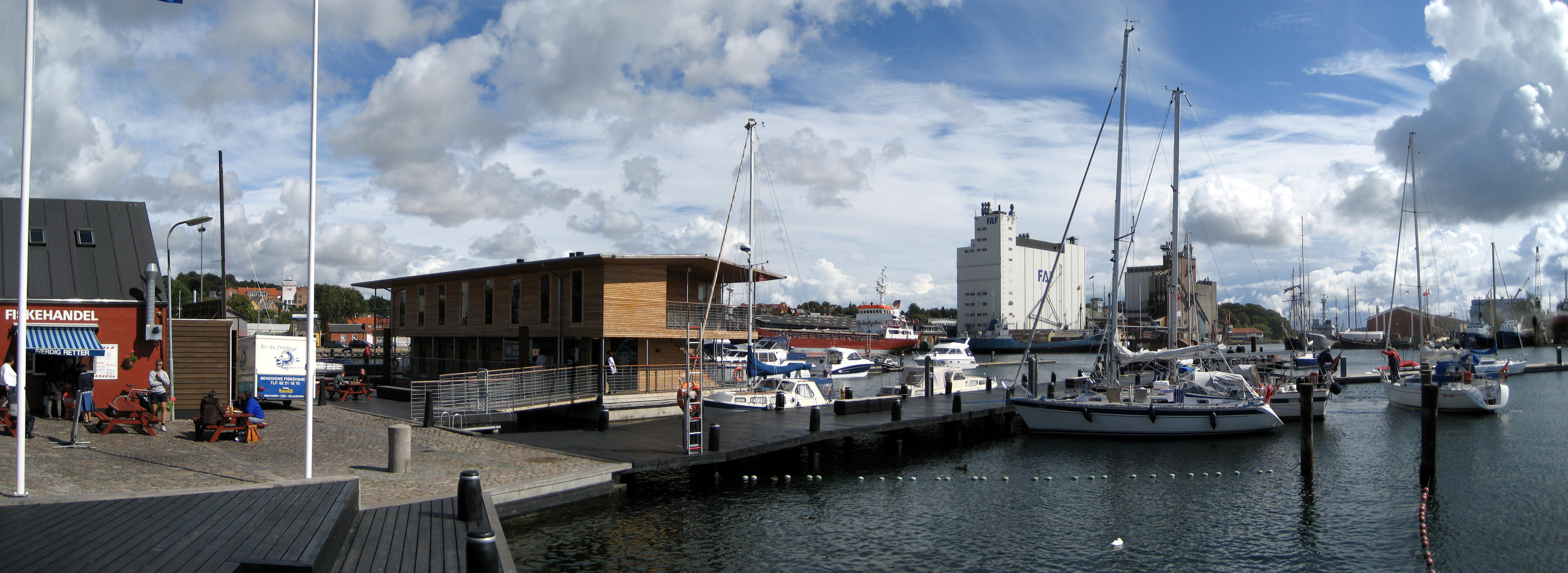 Svendborg marina